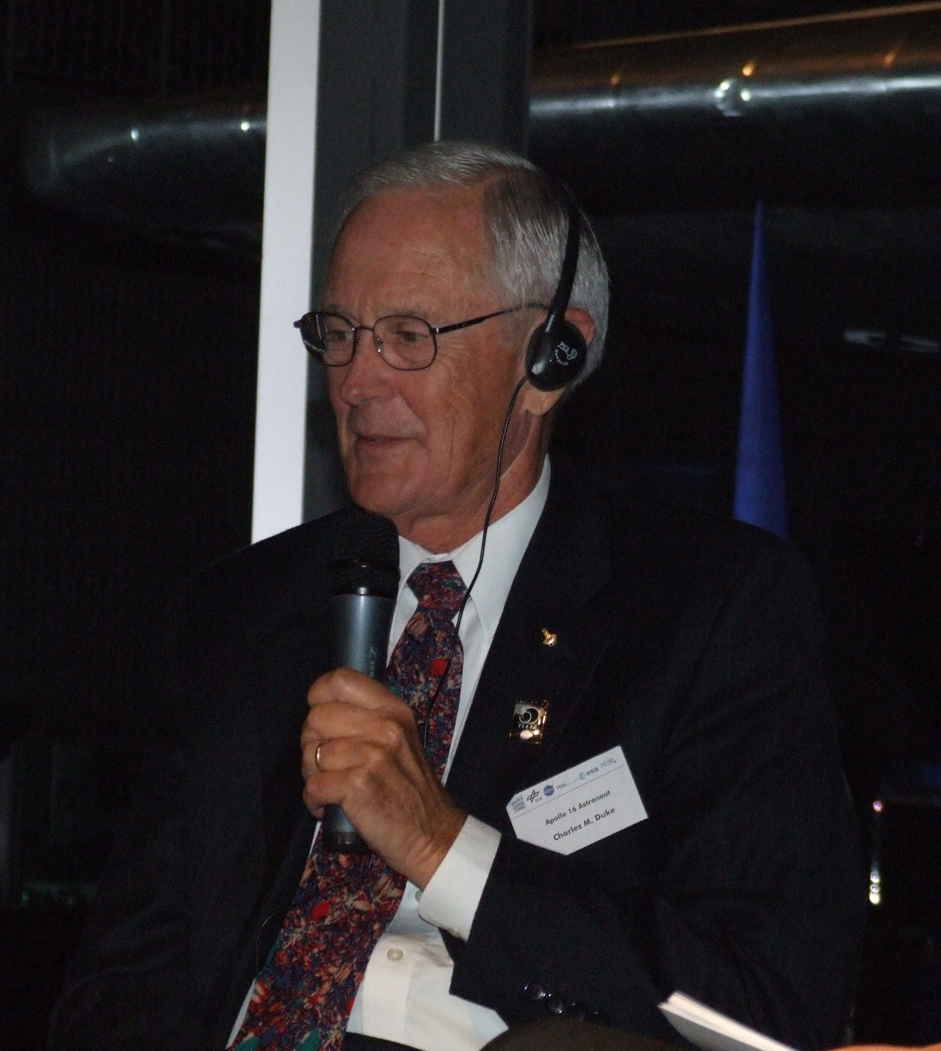 Charlie Duke at the opening of the space hall of the Technik-Museum Speyer and the exhibition "Apollo and beyond, Germany 2.10.2008